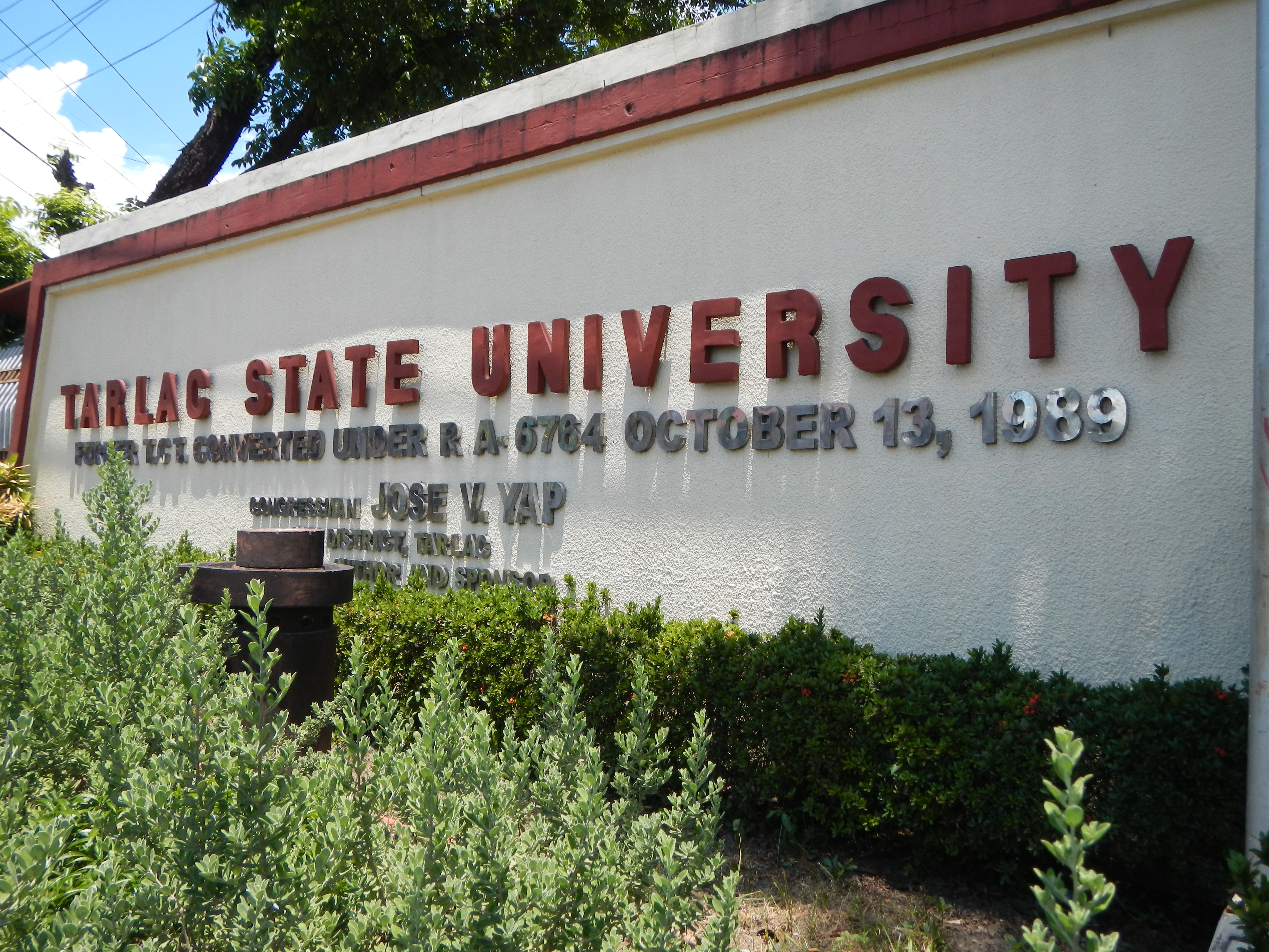 Tarlac City, Tarlac, along Romulo Boulevard, the Tarlac State University in Barangay San Jose.